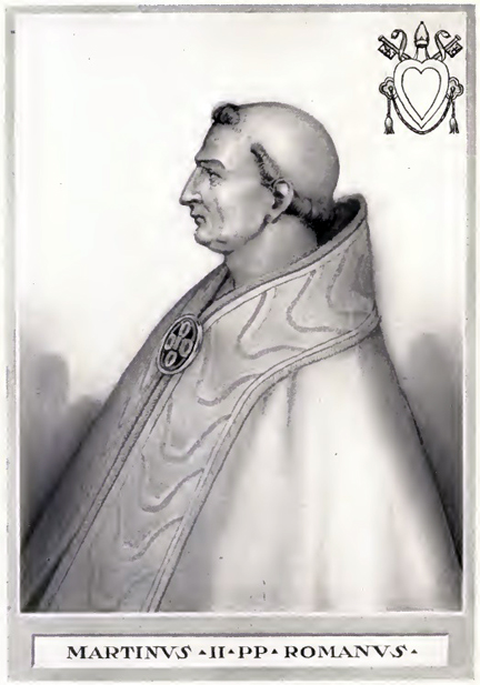 This illustration is from The Lives and Times of the Popes by Chevalier Artaud de Montor, New York: The Catholic Publication Society of America, 1911. It was originally published in 1842.